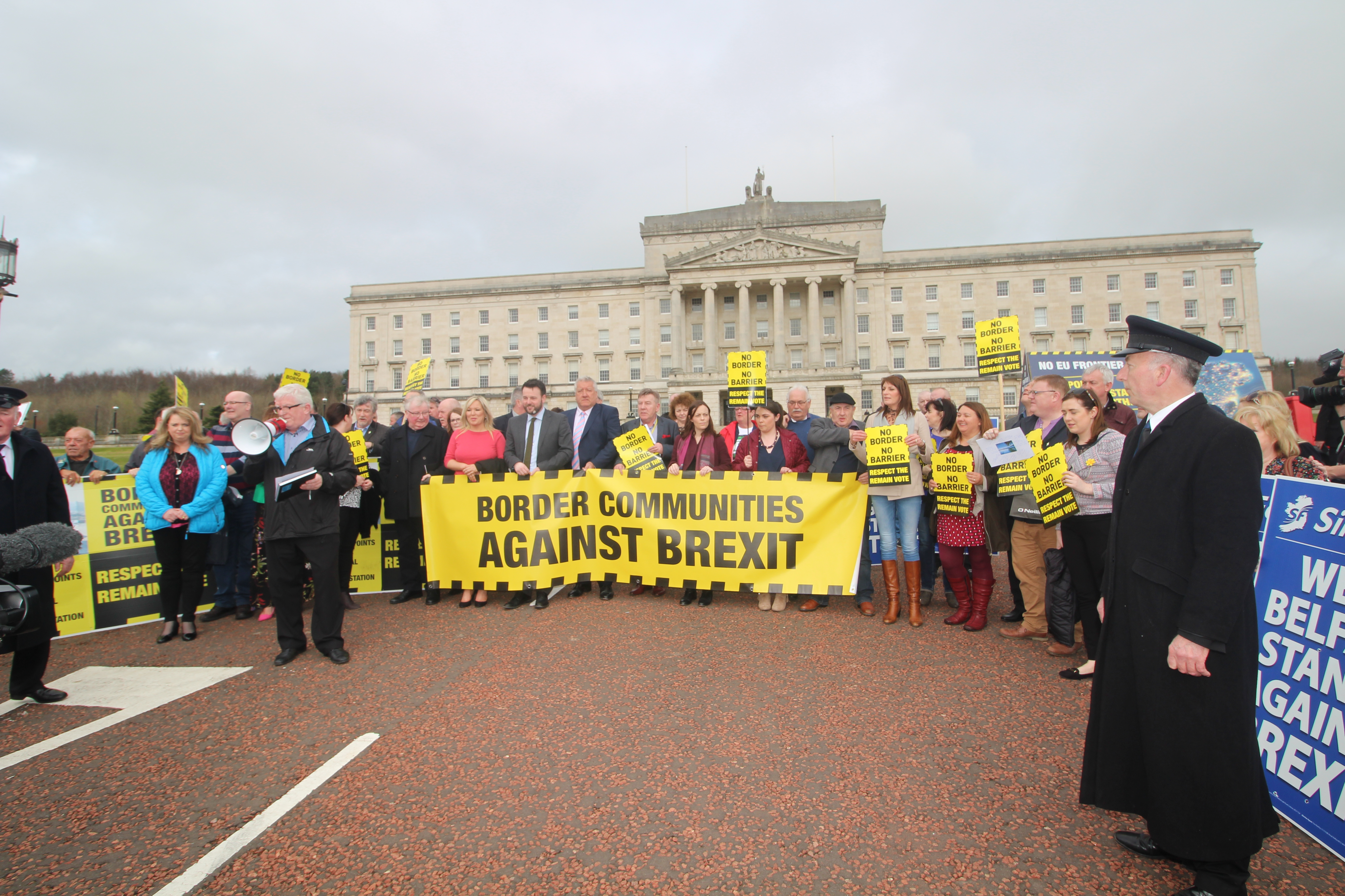 Brexit protest at Stormont